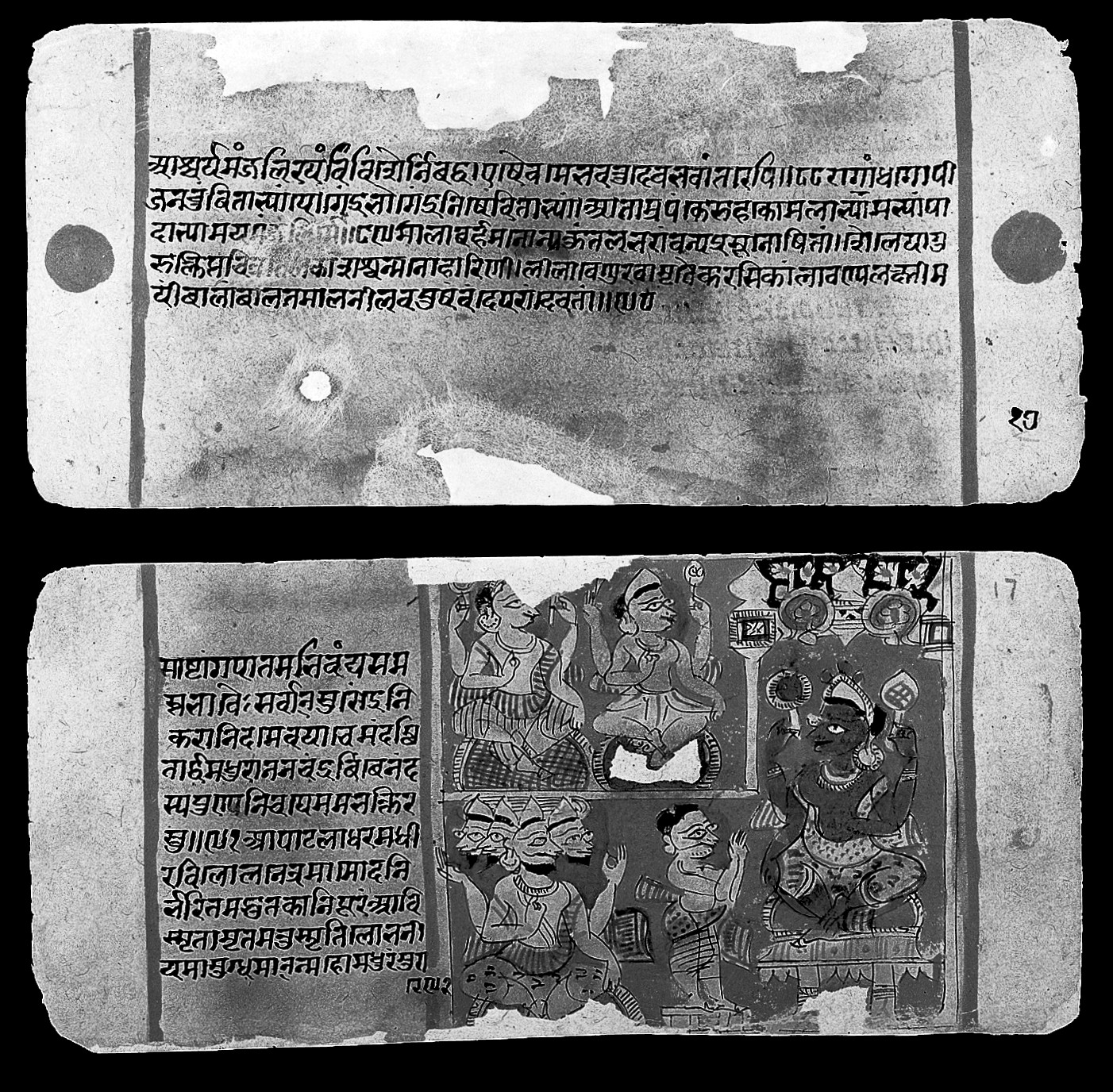 Bilvamangala's Balagopalastuti with colour miniatures involving Krsna and the gopis Asian Collection Keywords: Hindu gods; Krishna; Youth; India; Hinduism; Poetry; Adolescent; Bilvamangala; Krsnalilasukamuni